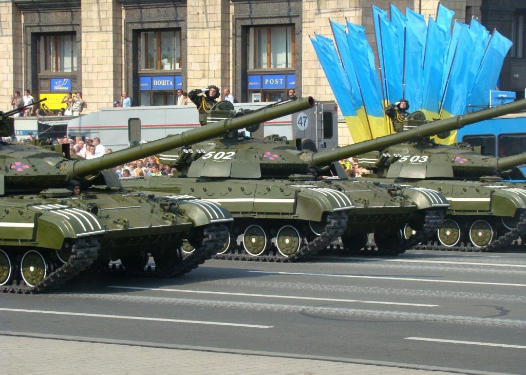 Ukrainian T-64 tanks during the Independence Day parade in Kiev, Ukraine in 2008.